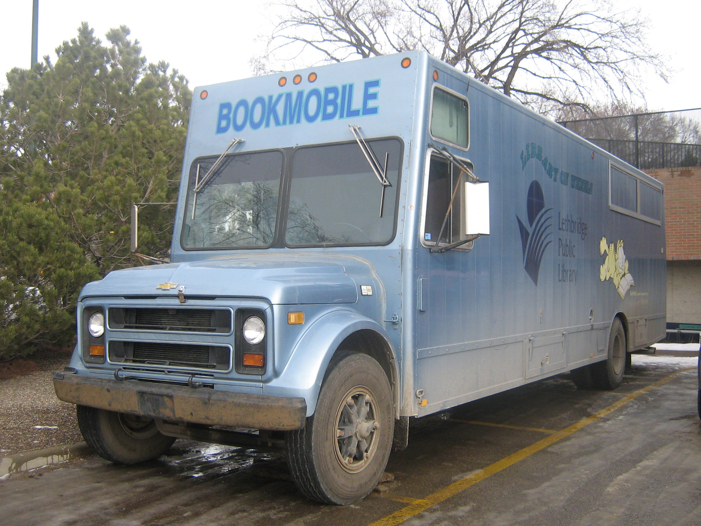 1980+ Chevrolet bus chassis made into a Bookmobile.